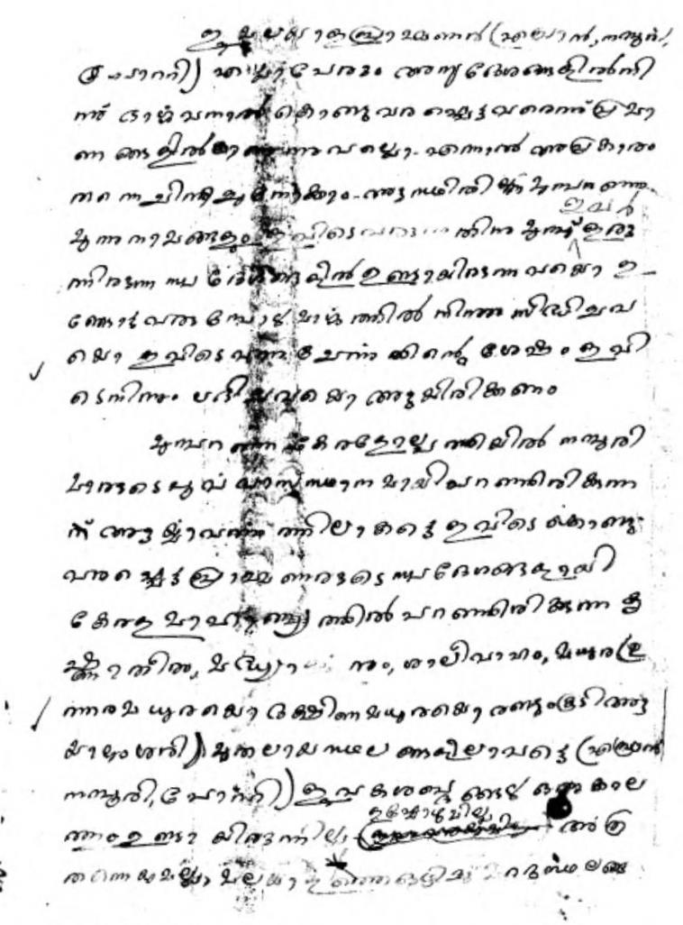 An old malayalam handwritten manuscript